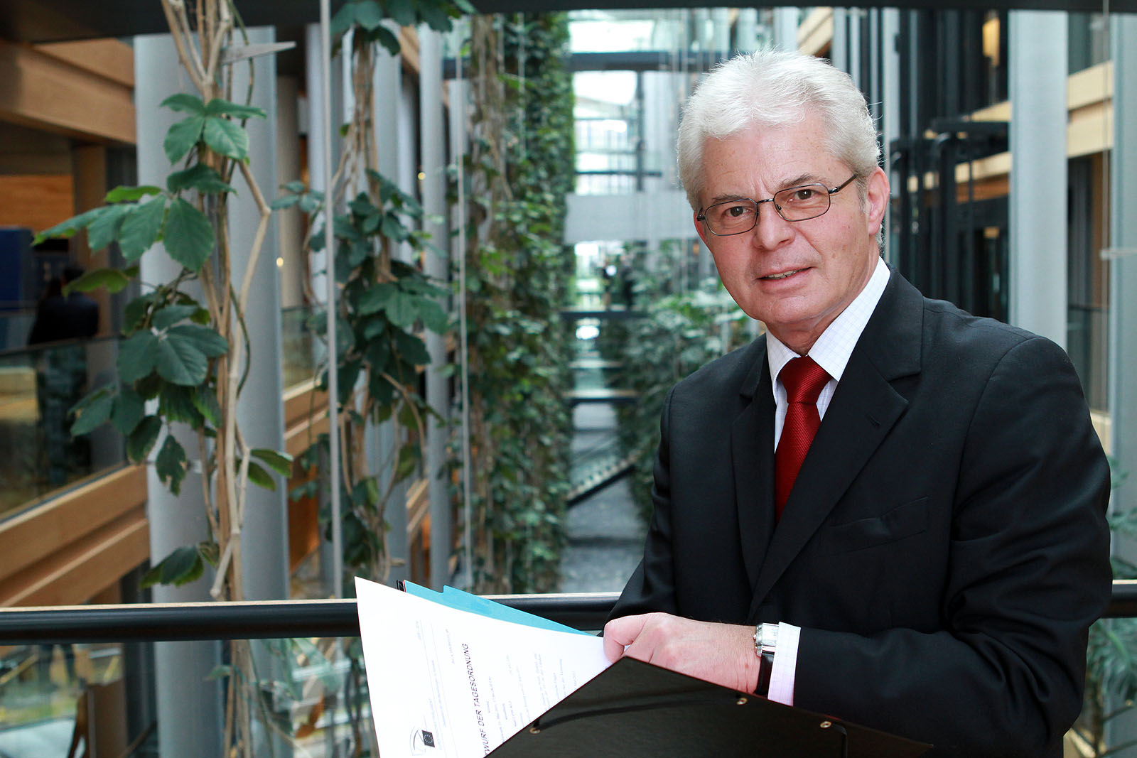 MEP Heinz K. Becker